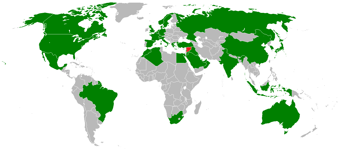 This map shows the countries that will participate in the Geneva II Middle East peace conference listed by UN peace envoy for Syria Lakhdar Brahimi on 20 December 2013.[1] Member countries are shown in green and Syria in red.Ślůnski: Uczestniki konferyncji pokojowy "Genewa 2"